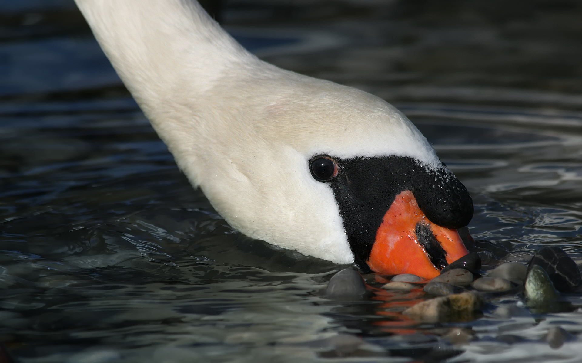 Description: The Black-headed Gull (Larus ridibundus) is a small gull which breeds in much of Europe and Asia, and also in coastal eastern Canada.